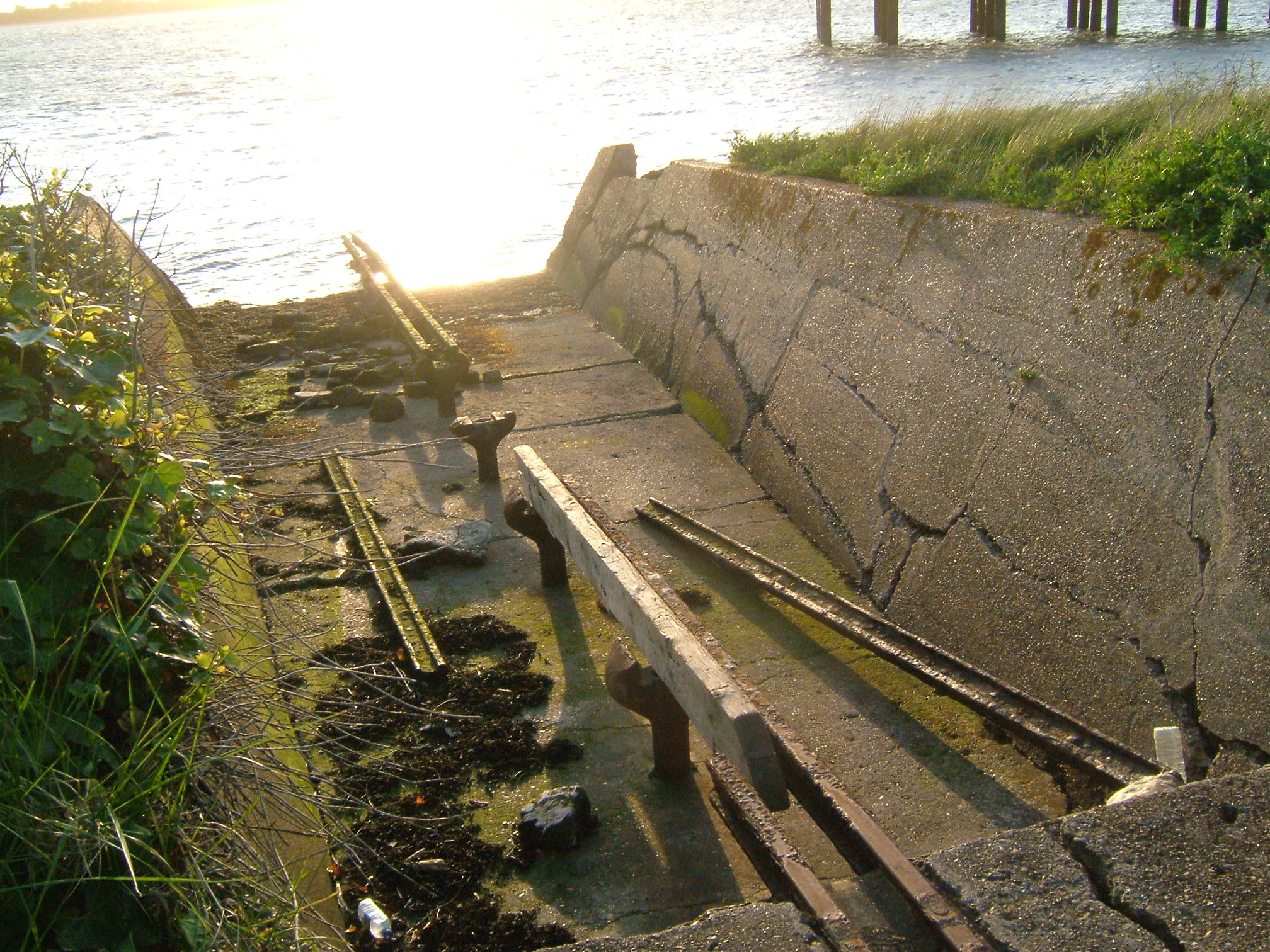 Cliffe Fort is a Royal Commission Fort built at grid reference TQ708767 as part of the defences of Chatham Dockyard. It is on the Thames Estuary, on The Lower Hope. These are the remains of the Brennan Torpedo tracks .